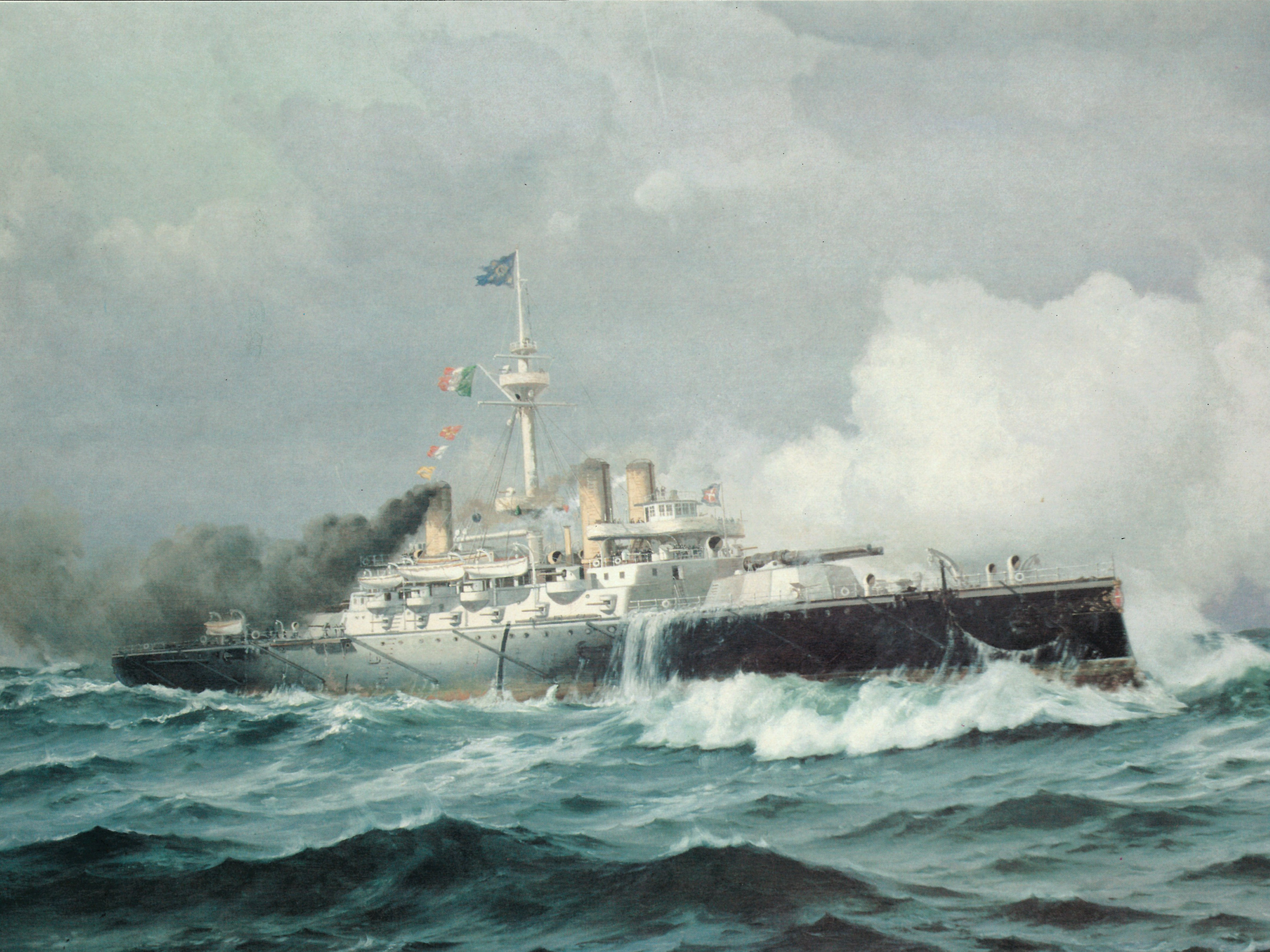 Ironclad battleship "Re Umberto" of the Italian Royal Navy (1888-1920). oil on canvasmedium QS:P186,Q296955;P186,Q4259259,P518,Q861259